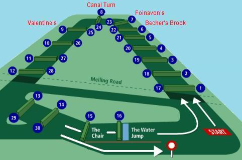 Cropped version of the Aintree national circuit